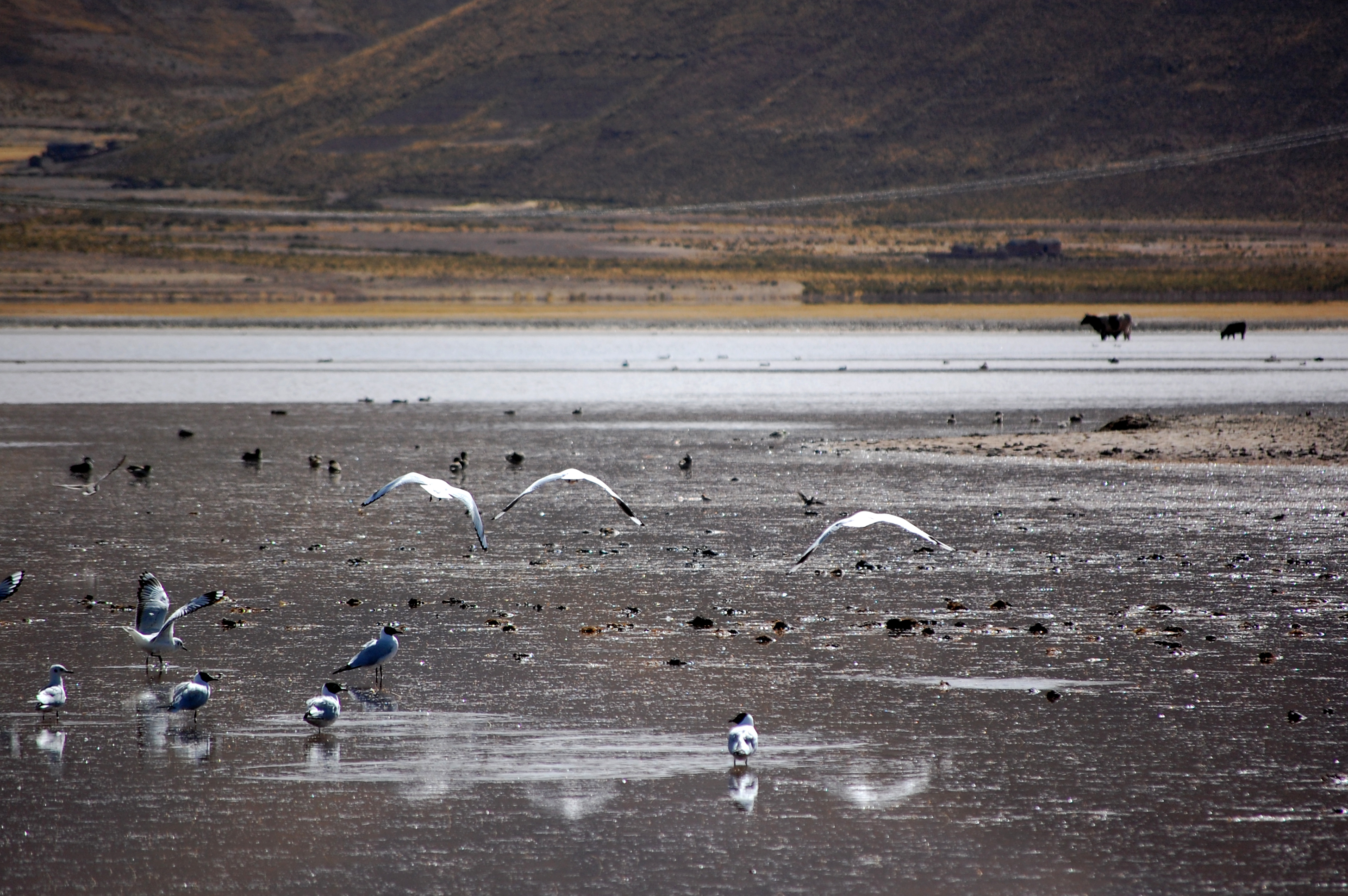 Andean Gull (Chroicocephalus serranus) on the Altiplano (Bolivia), at the salt lake Huayrapata.